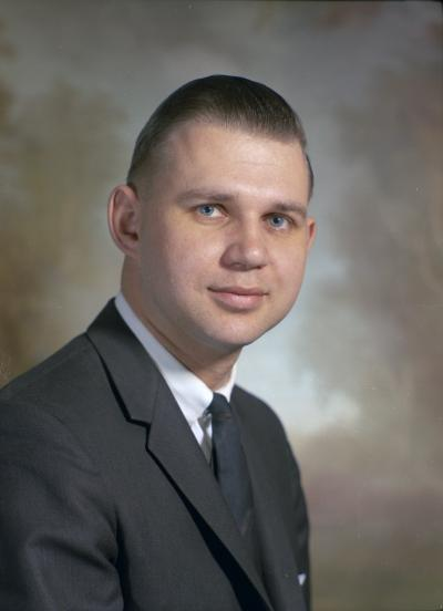 Representative Daniel G. Marsh, 1967